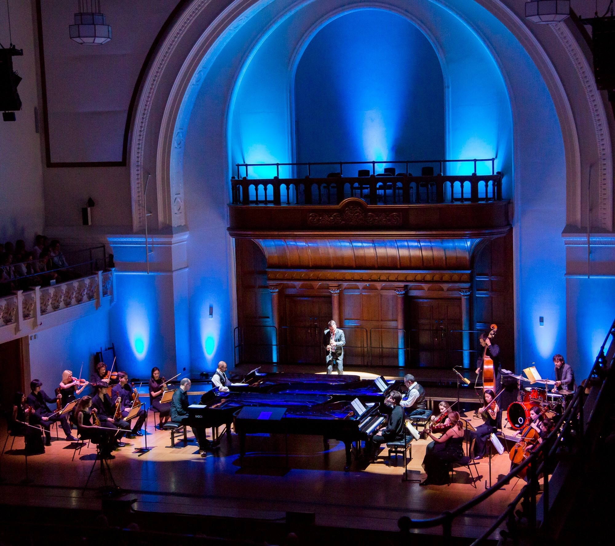 Perfomance in Cadogan Hall, London. May 2016